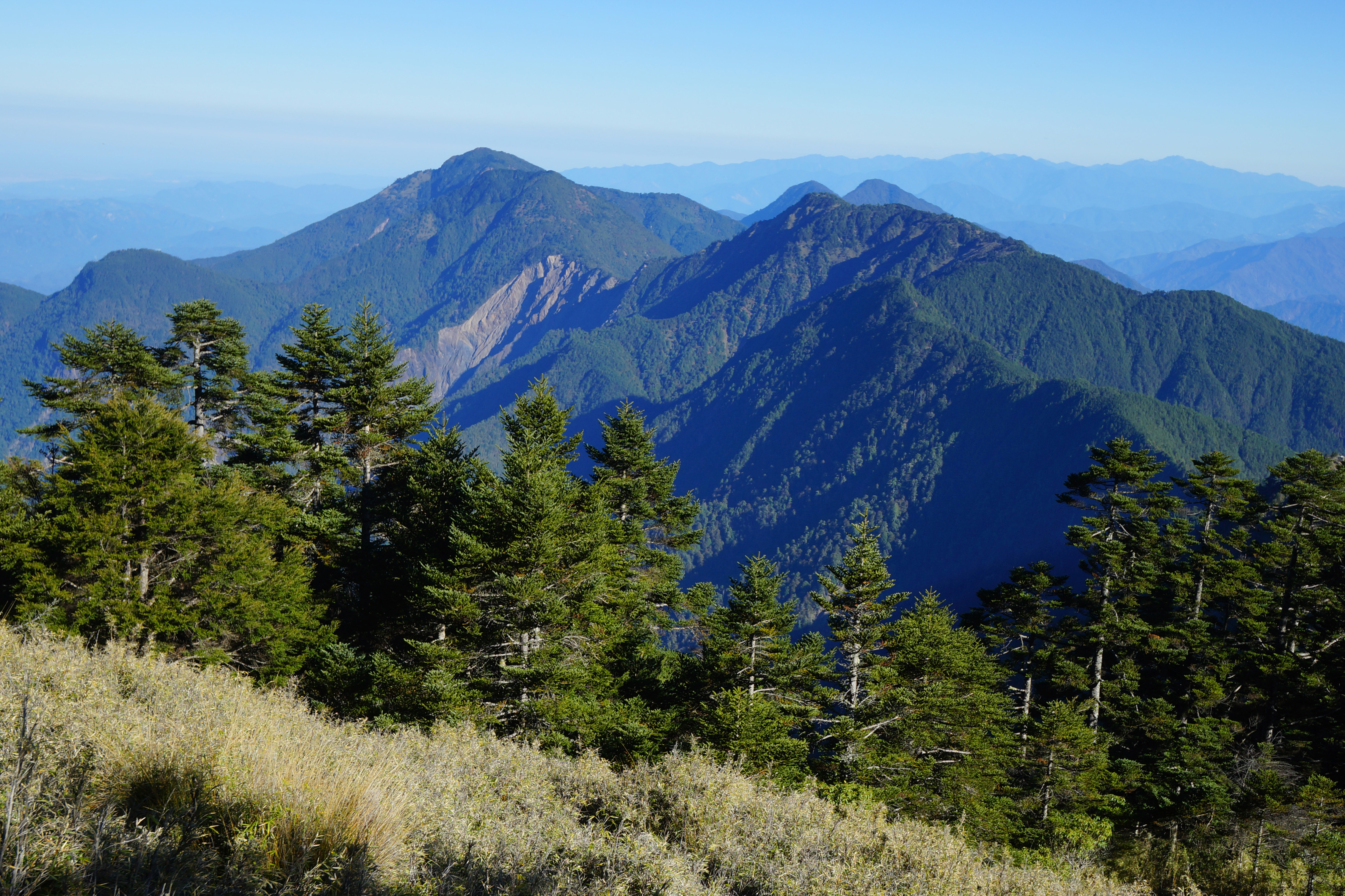 Mt. Xiluan (Xiluandashan, left), 3081m